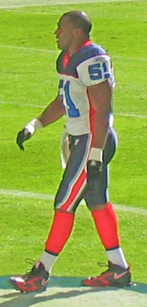 Takeo Spikes before a football game.